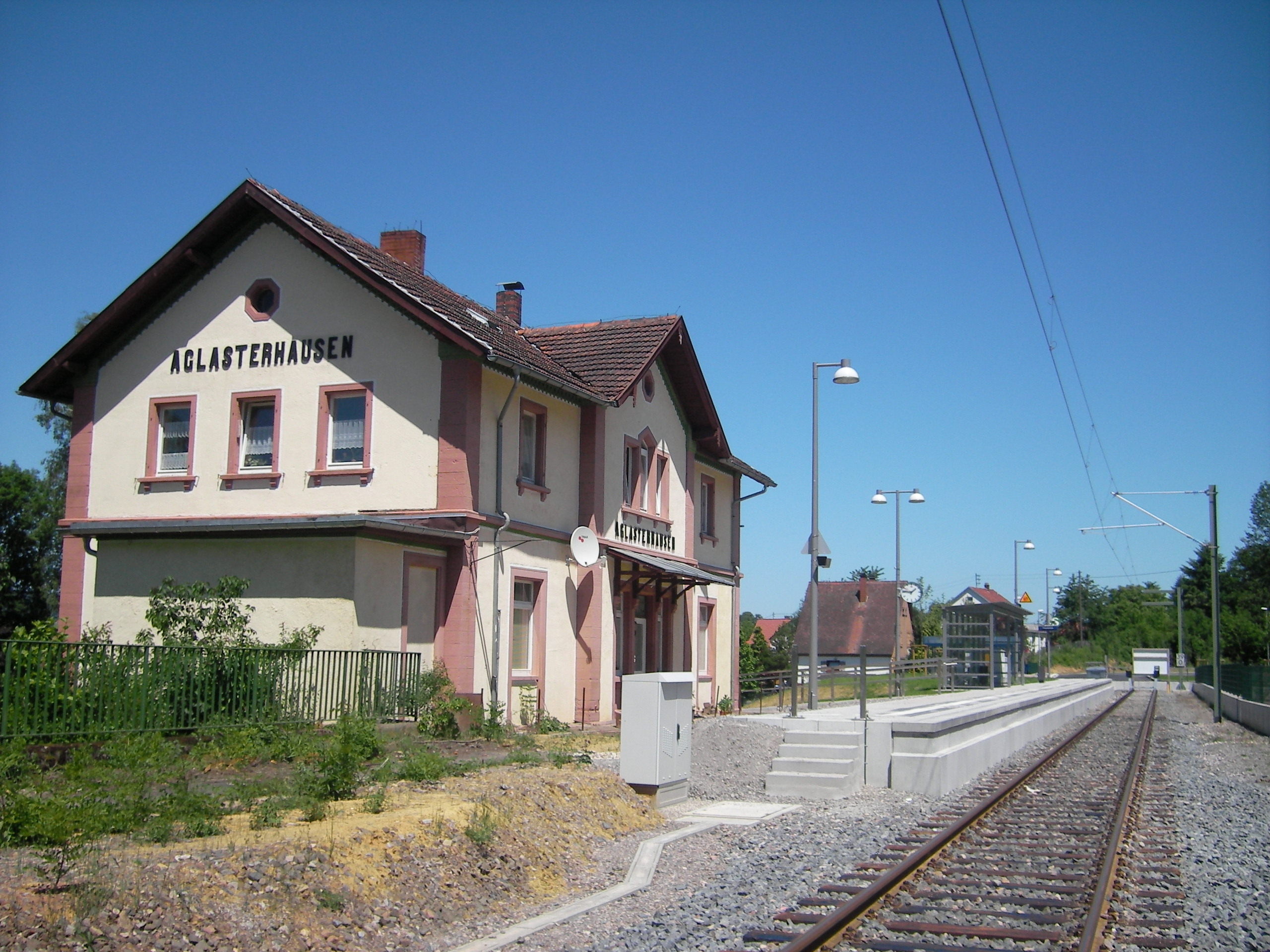 Station Aglasterhausen located at the line S51 of the S-Bahn RheinNeckar